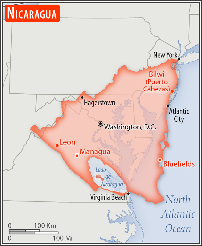 Comparison of the areas of two country. The area of Nicaragua with biggest cities (red) overlay the area of the United States of America (gray background).